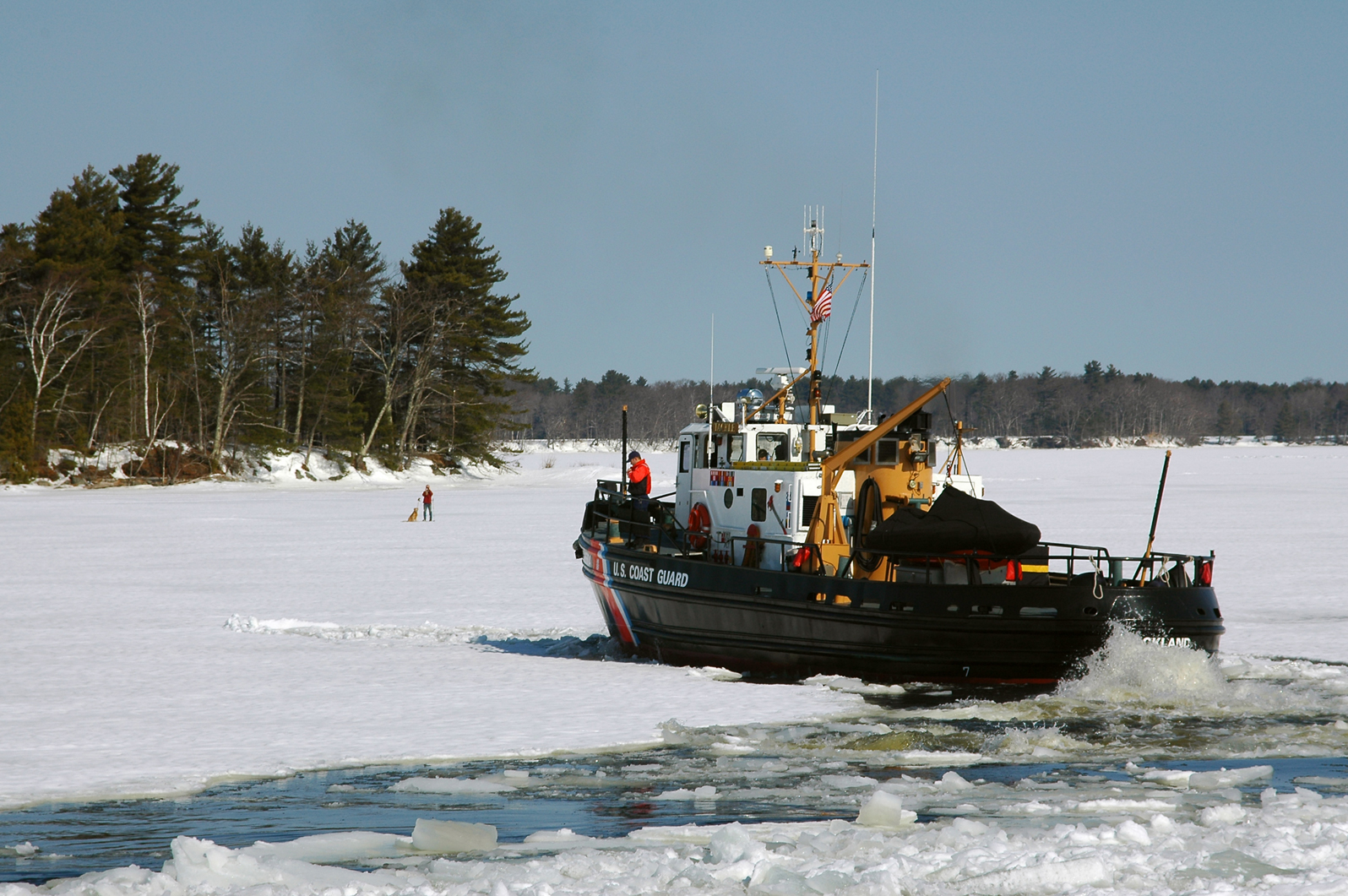 The Coast Guard cutter USCGC Tackle (WYTL-65604) breaks ice on the Kennebec River near Bath, Maine for flood relief while a local resident skis down the river with his dog. Melting snow drains into the ice-choked river, threatening to flood towns from Gardiner, Maine, to Bath, Maine. Coast Guard cutters break the ice to allow the snowmelt to drain harmlessly into the Atlantic Ocean.